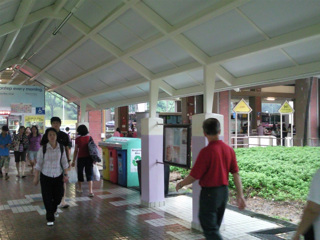 Photo taken at Bukit Batok Bus Interchange